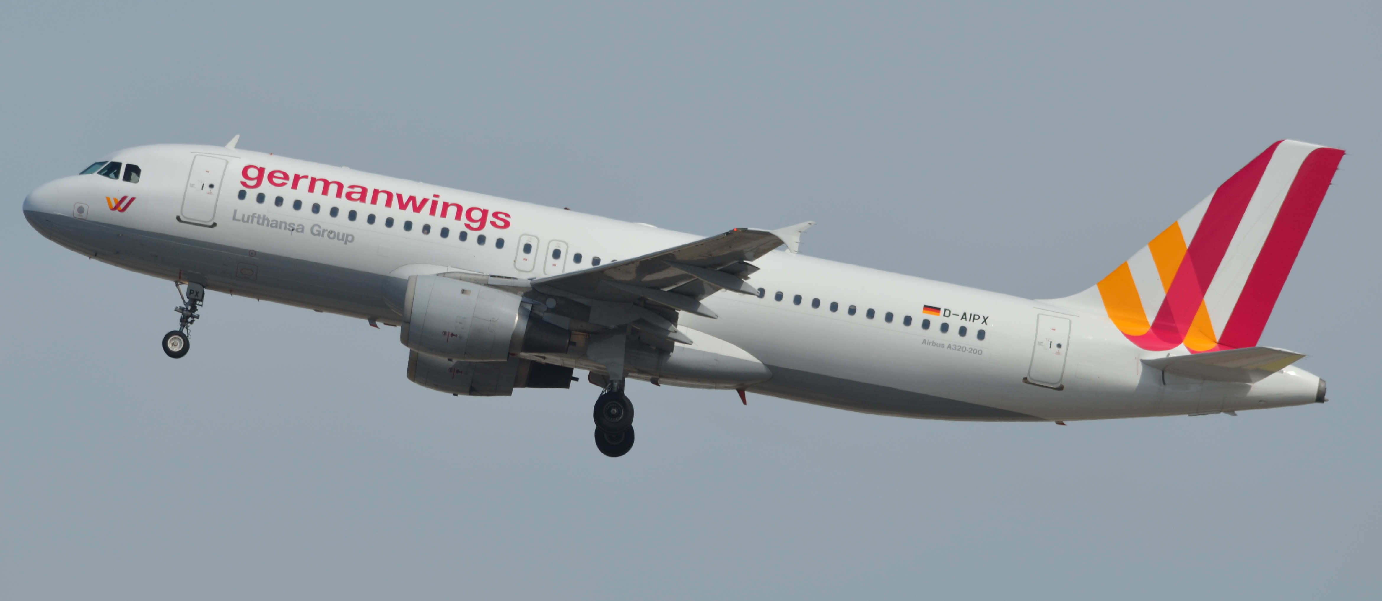 Airbus A320 (D-AIPX) of Germanwings taking off from Barcelona Airport. On 24 March 2015, this plane crashed in the French Alps.